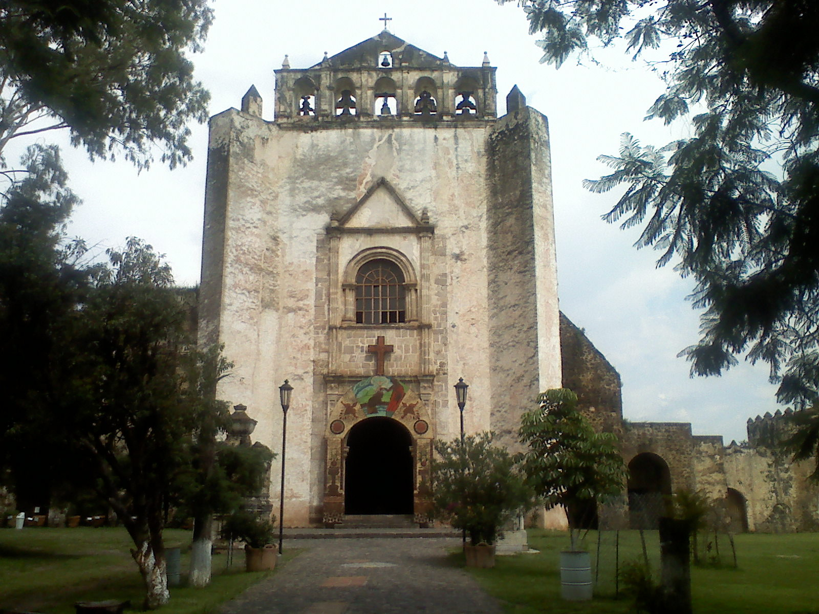 Tlayacapan sample picture